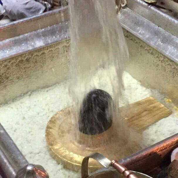 vishwanath